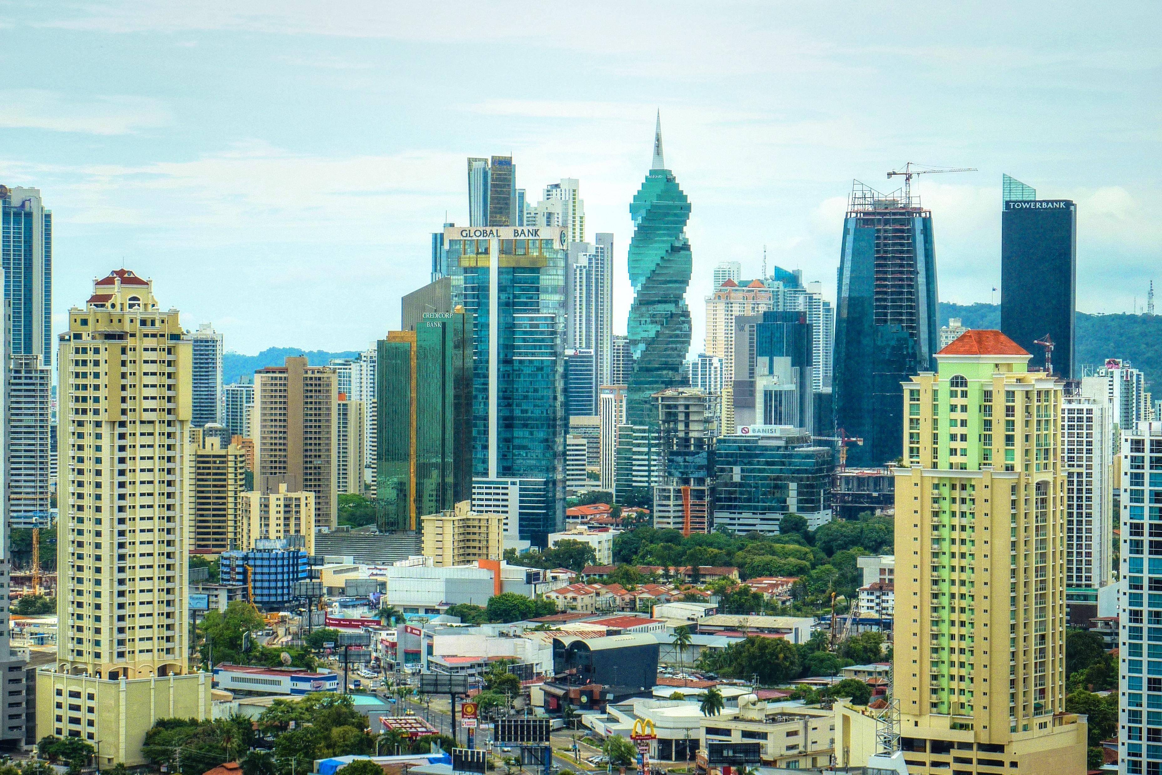 HDR of Panama City, Panama